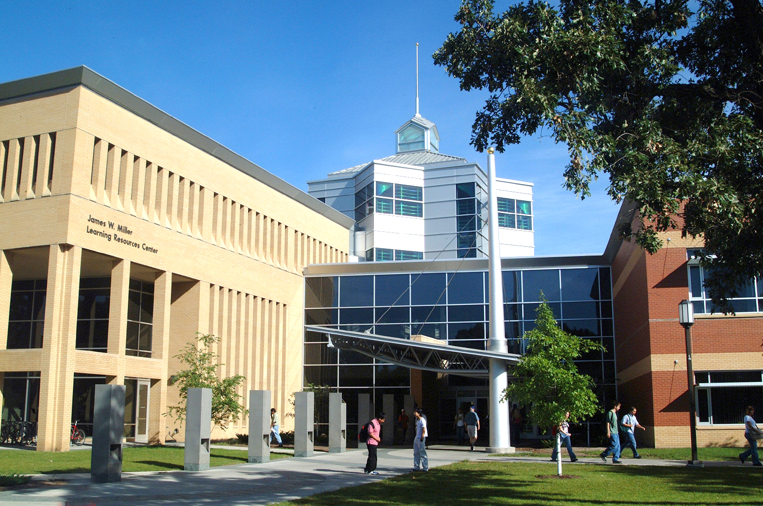 St.Cloud State University Miller Center 2013